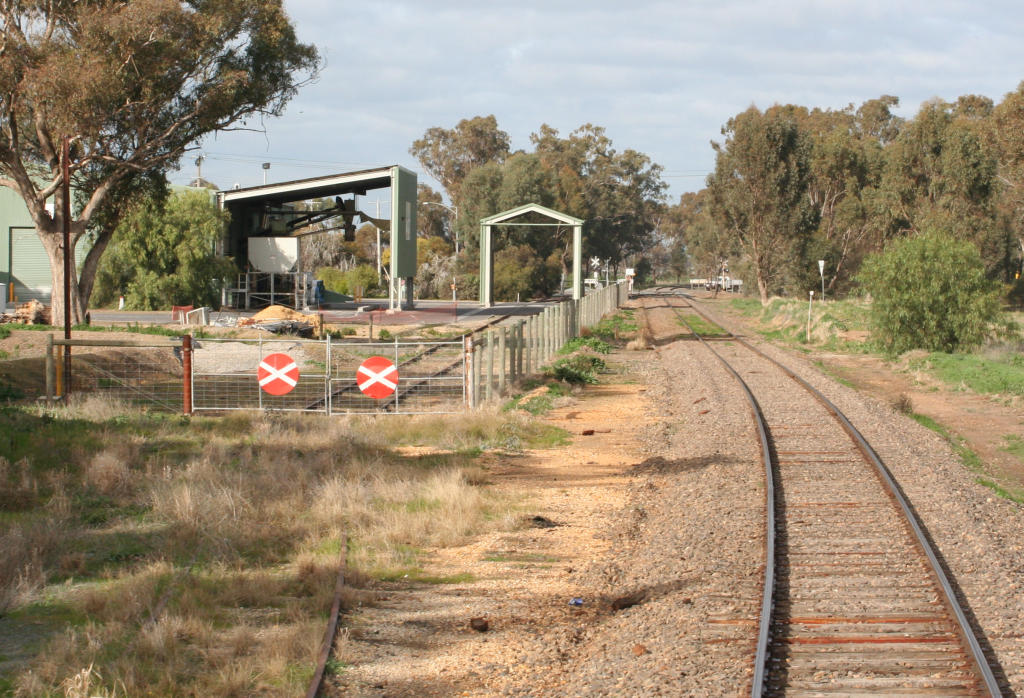 Congupna railway station, Victoria freight facilities: fertiliser depot to left. Platform mound to right